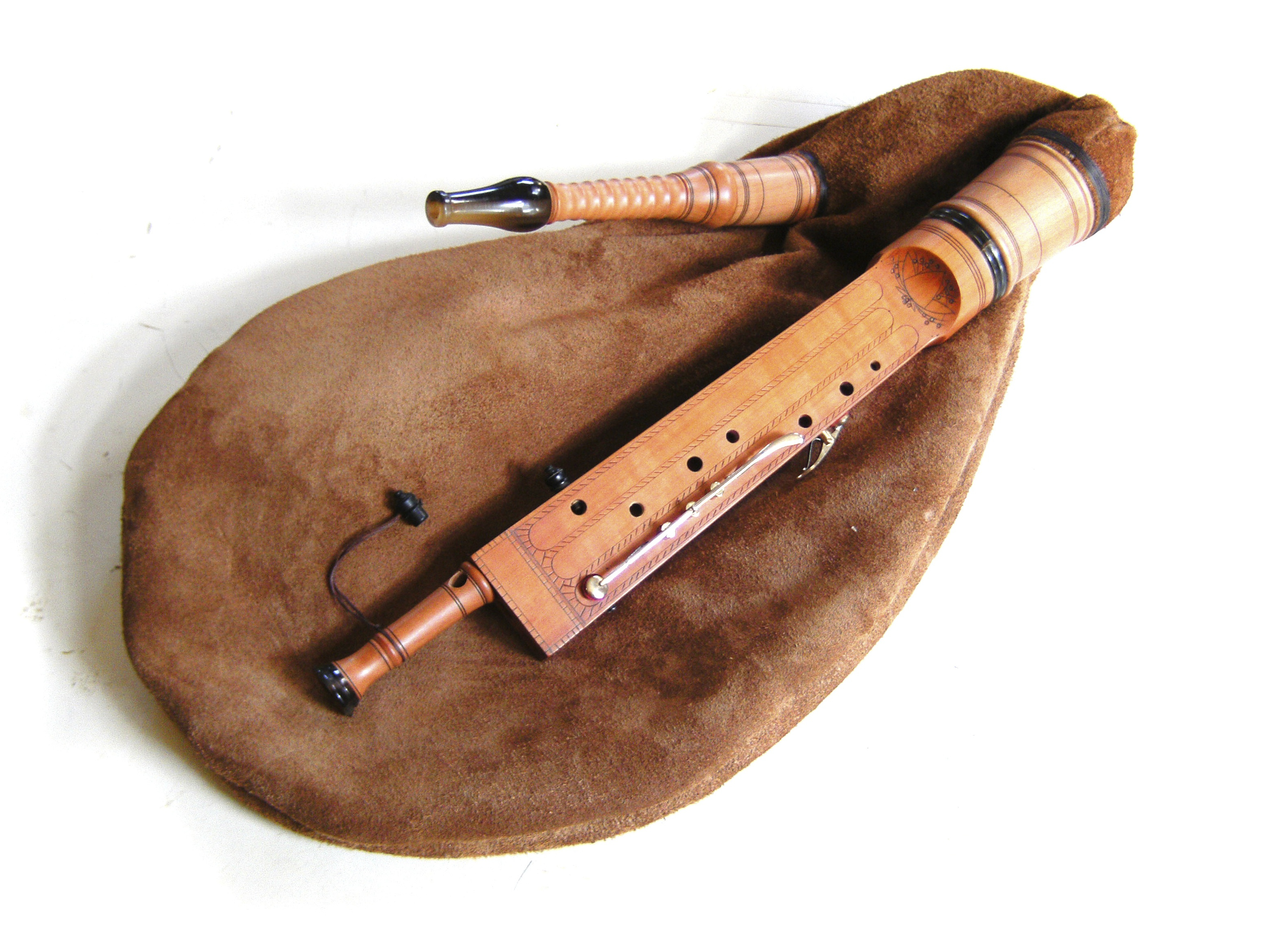 Ceccola polifonica in D (Re) W.Rizzo, P. Rabanser 2012